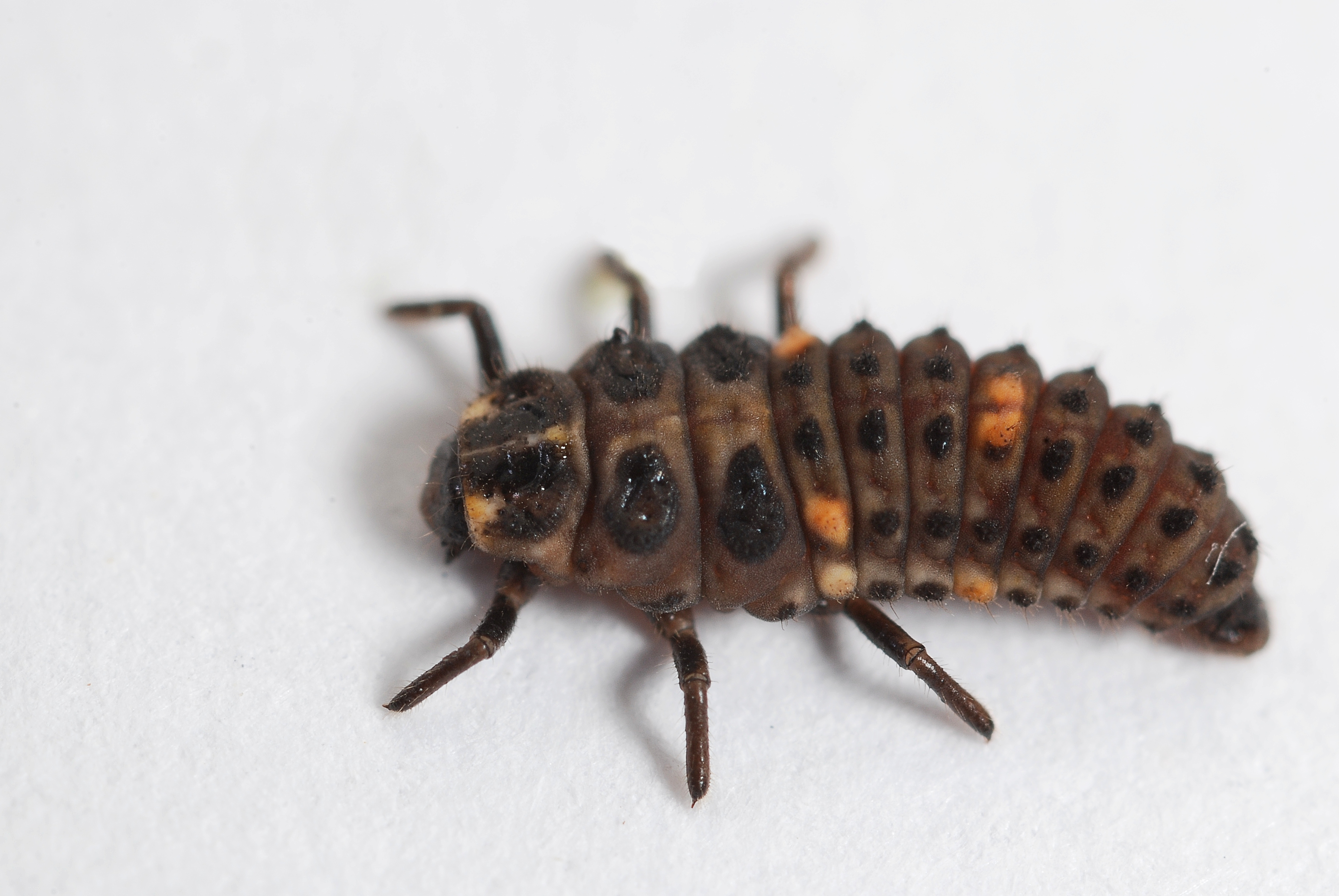 4th stage larva